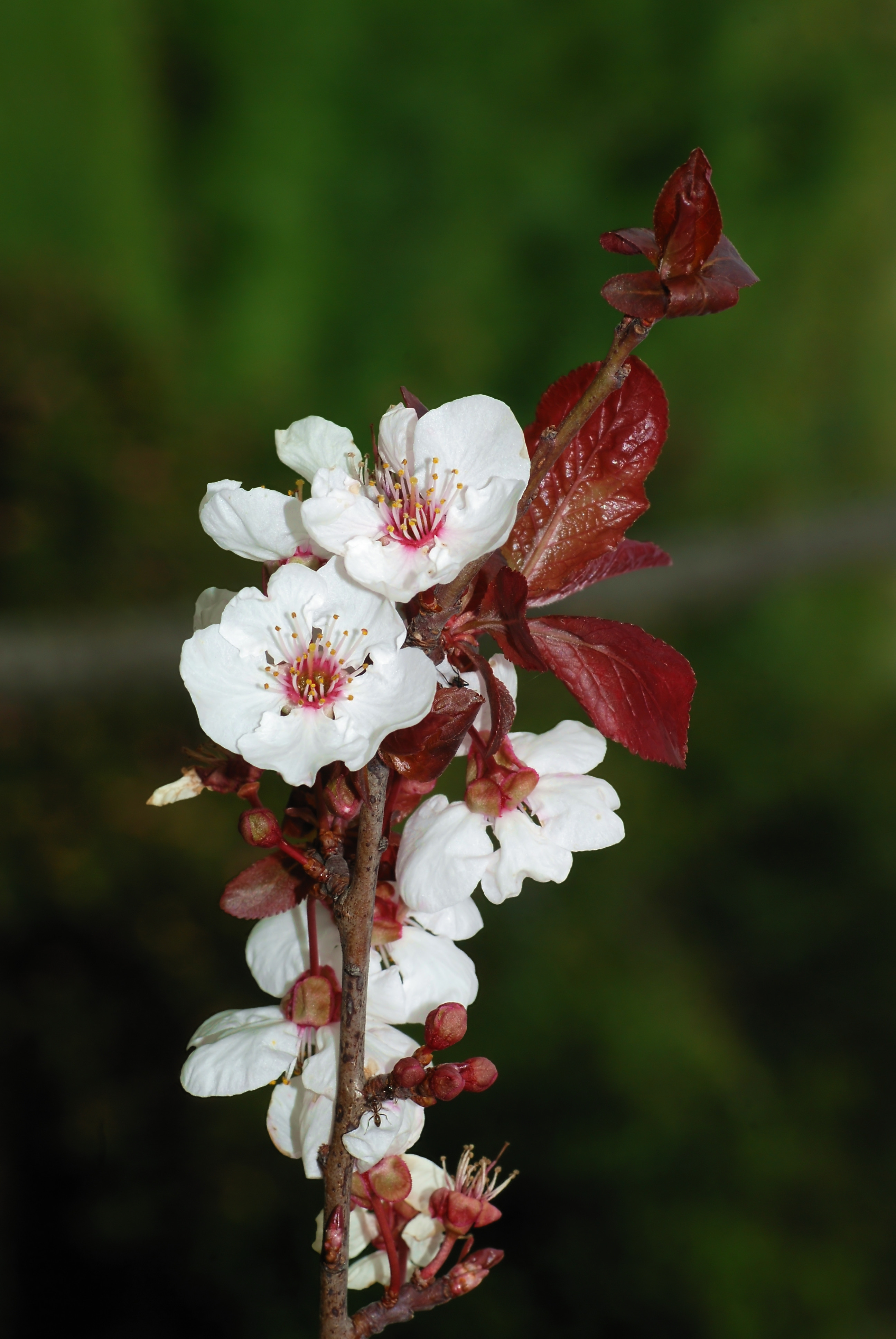 Branch of a purple leaf plum (Prunus cerasifera) with flowers, buds and leaves